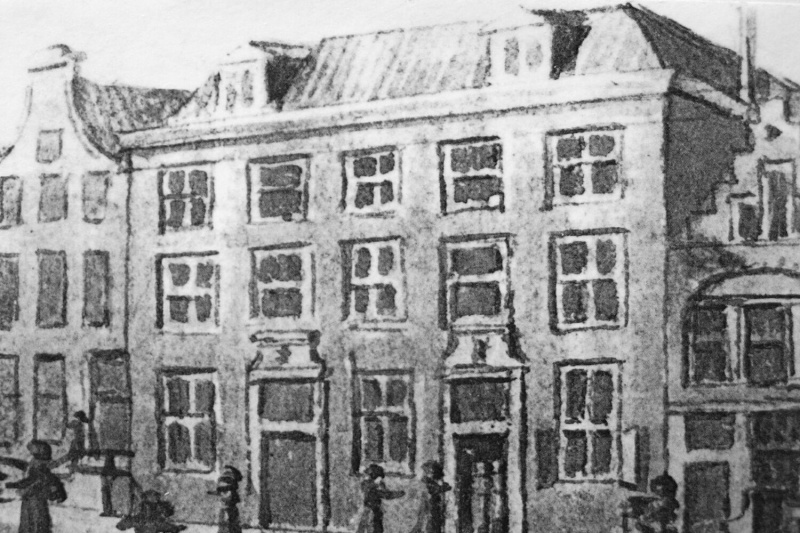 Original building of the Mozes en Aäronkerk (Amsterdam), used between 1649 and 1839 in the Jodenbuurt, before it was replaced in 1841 by a proper church next door